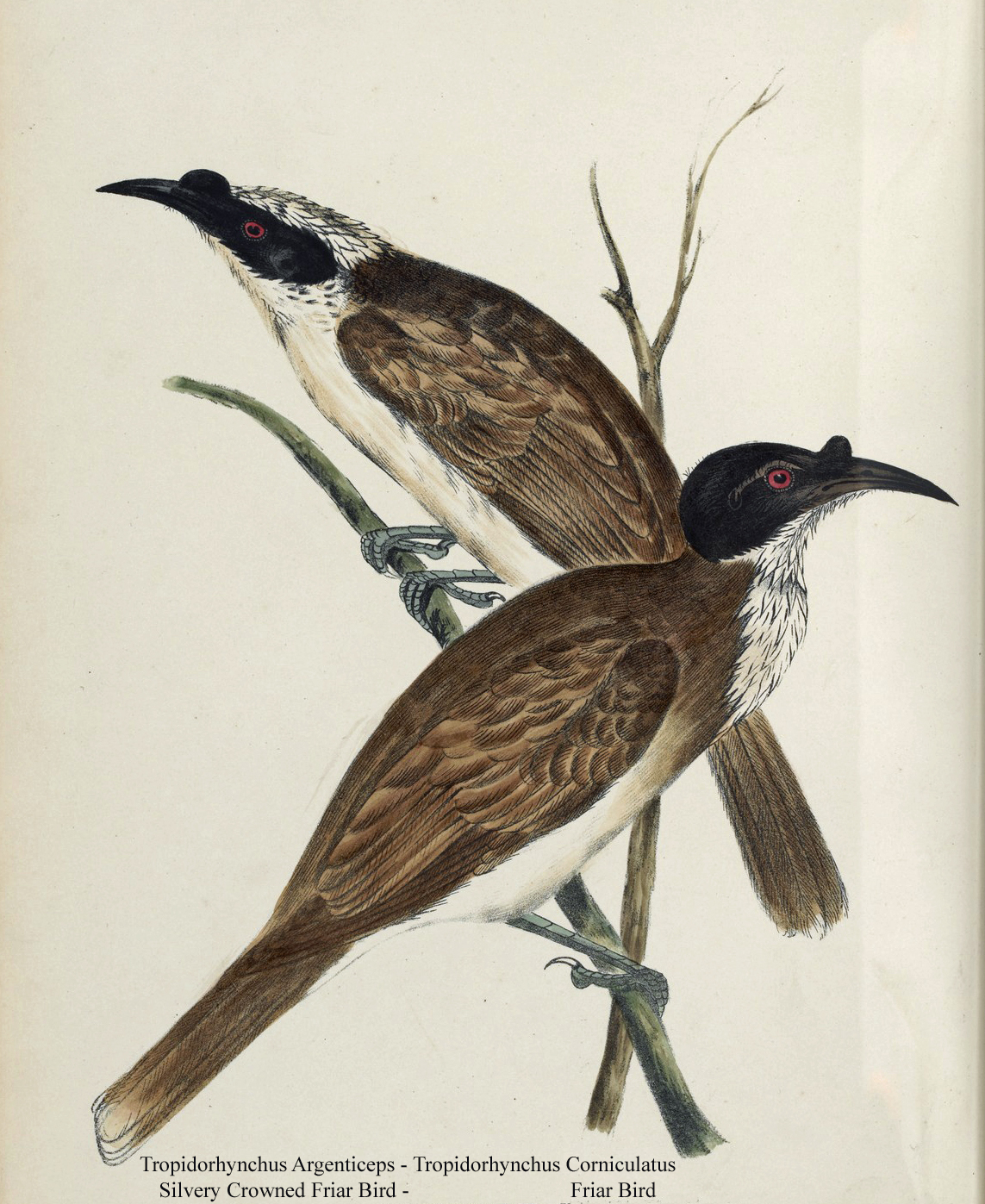 Plate from Companion to Gould's Handbook; or, Synopsis of the birds of Australia. Containing nearly one-third of the whole, or about 220 examples, for the most part from the original drawings.